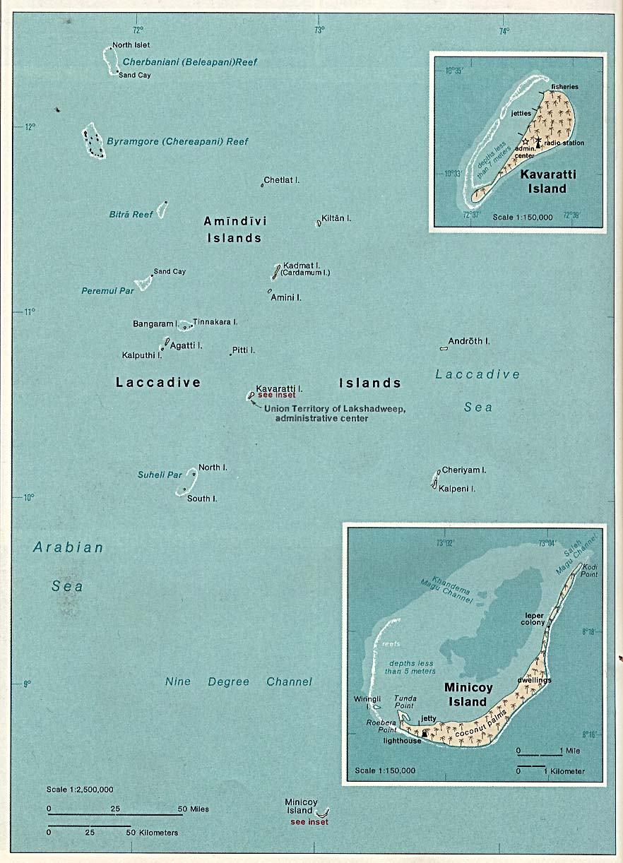 Map of Lakshadweep, Indian Ocean